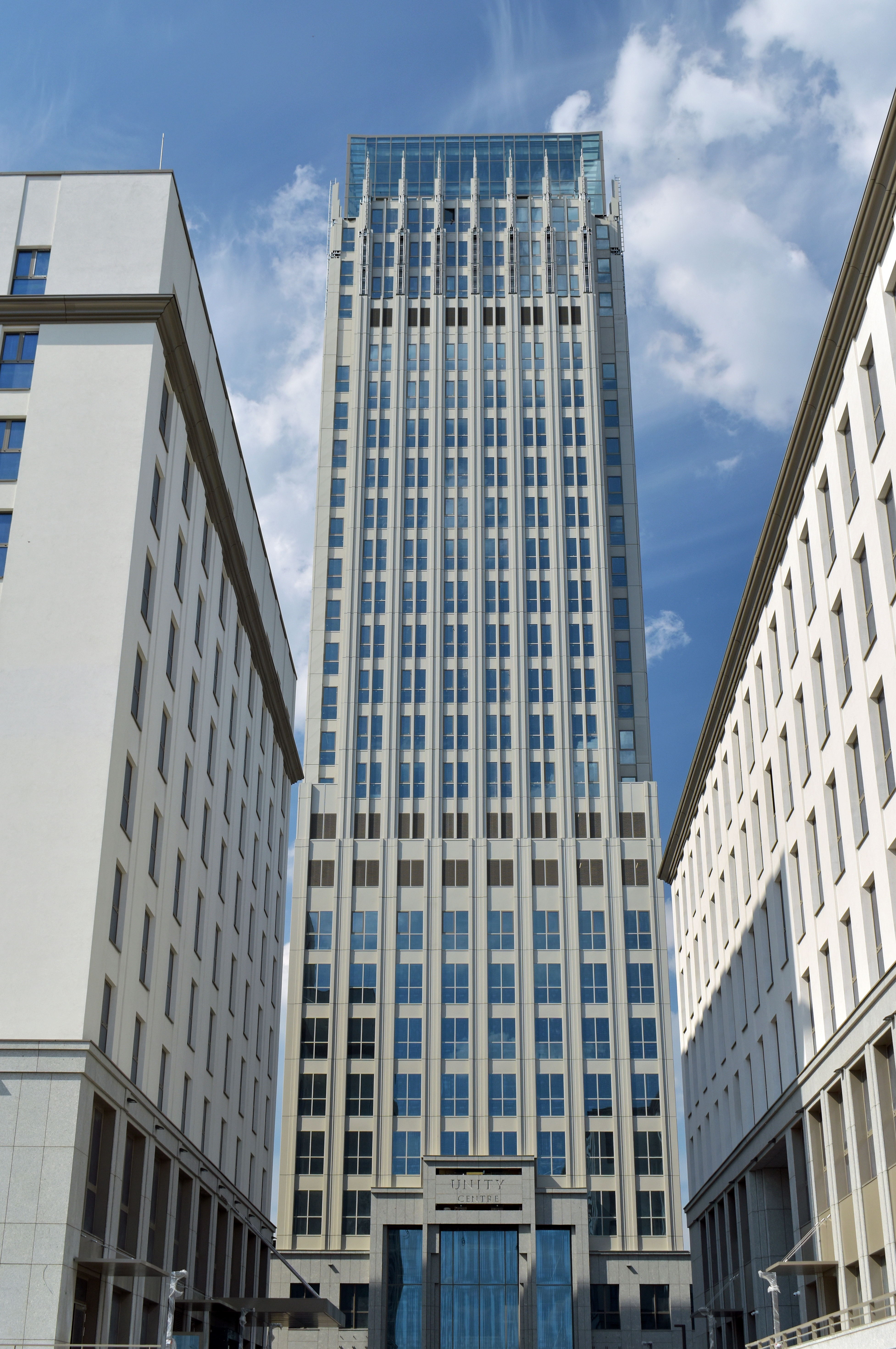 Unity Tower, front, 2 Lubomirskiego street, Krakow, Poland